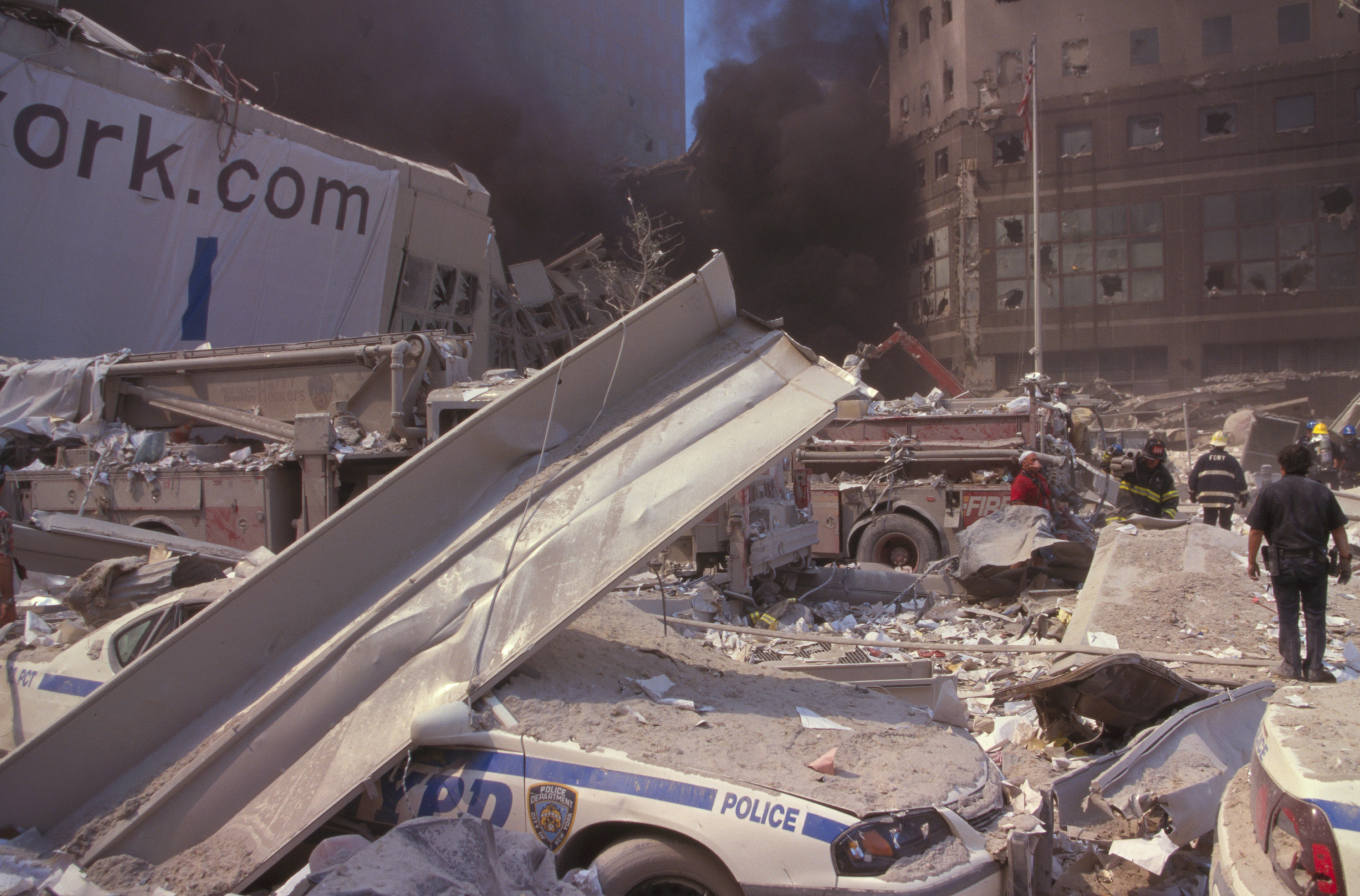 Destruction following the 9/11 attacks.